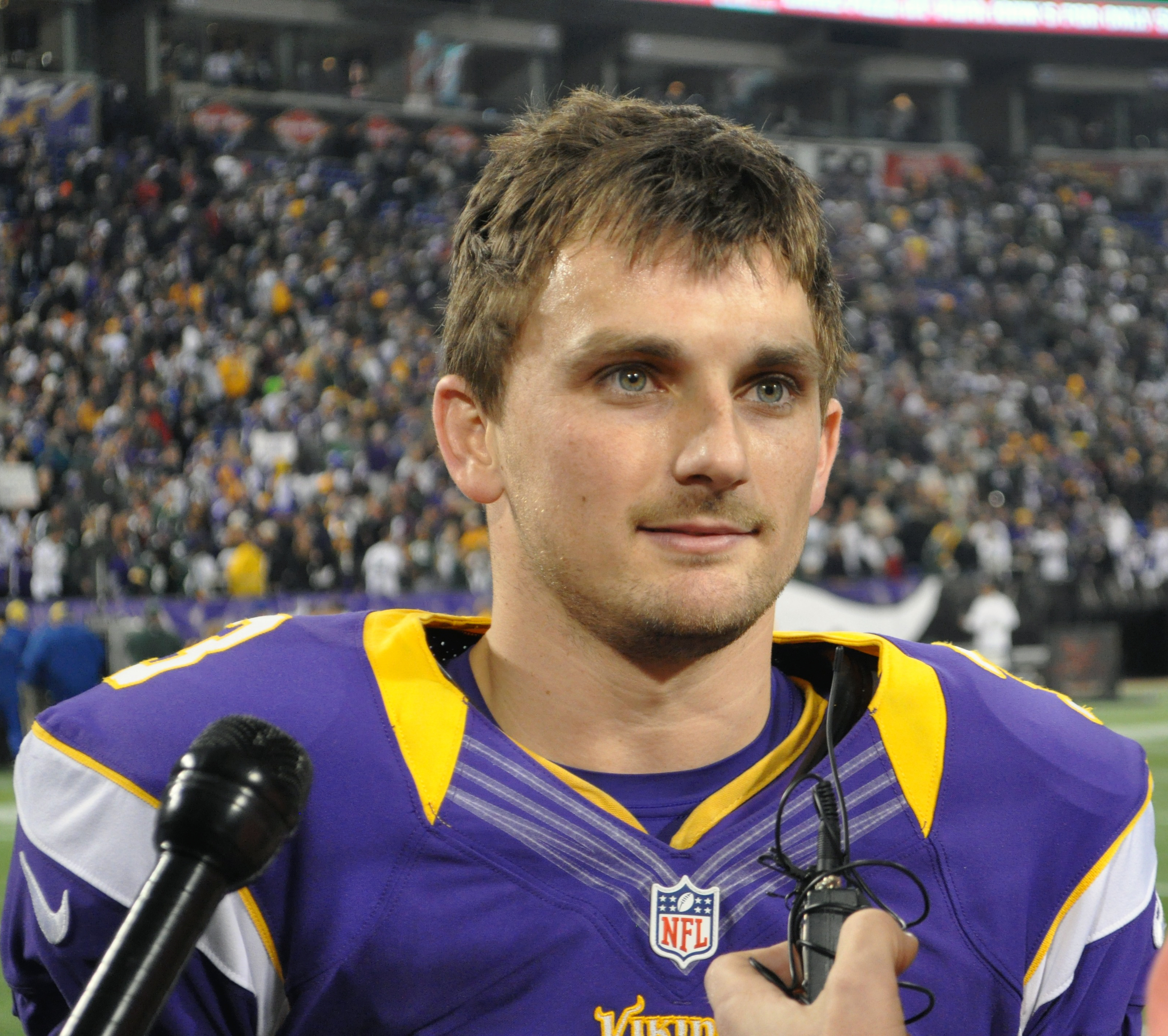 Minnesota Vikings kicker Blair Walsh's close-up